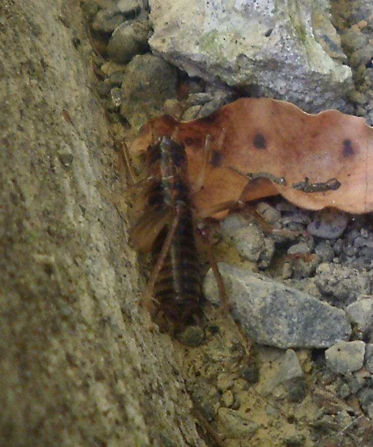 Hemiandrus pallitarsis (or other species?), a species of ground weta. Picture taken showing dorsal view, in Upper Hutt, New Zealand